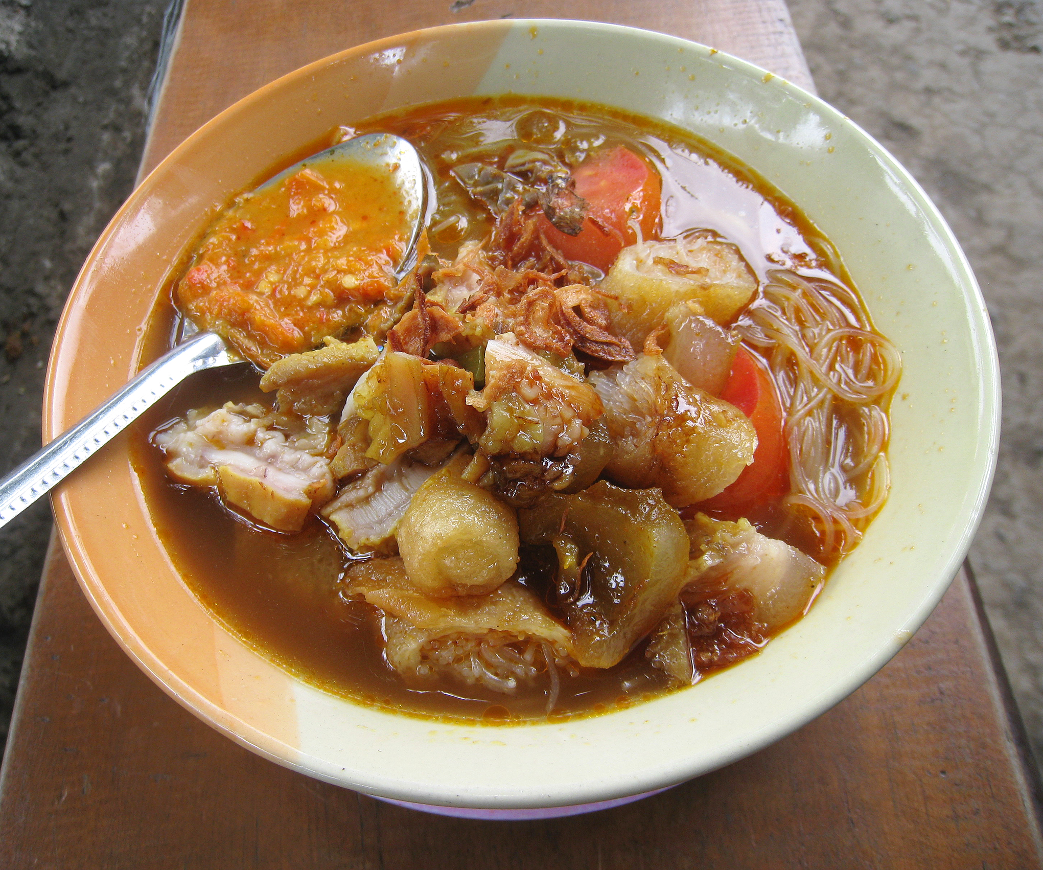 Soto Mie Bogor sold on Jakarta street. The ingredients are noodle and rice vermicelli, cabbage, tomato, cow's leg (tendons and cartilage) and tripes, risoles spring rolls, served in broth soup, added sweet soy sauce, sprinked with fried shallots and add sambal chilli on the spoon.